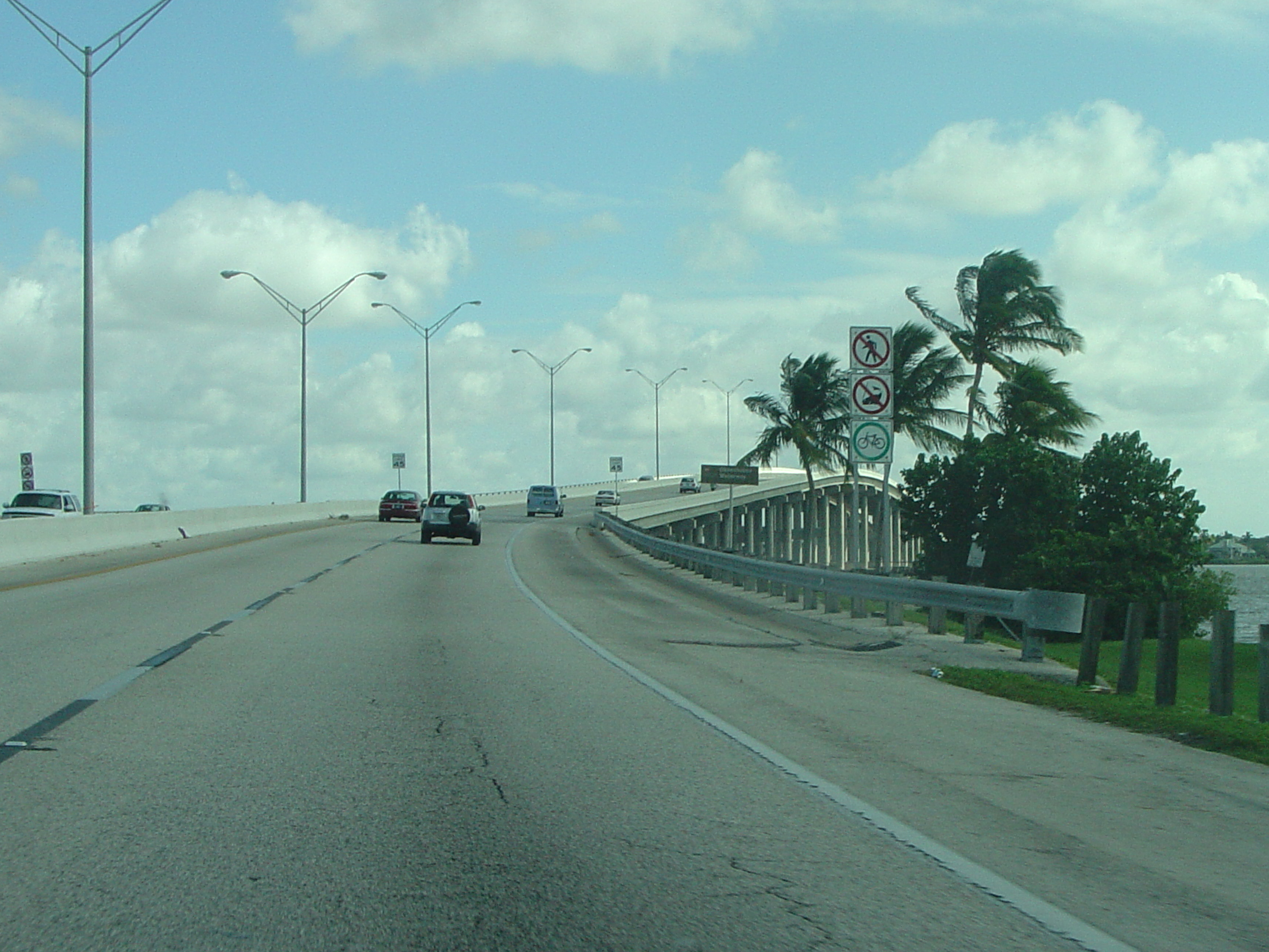 The western landing of the Cape Coral Bridge on the Cape Coral Side.